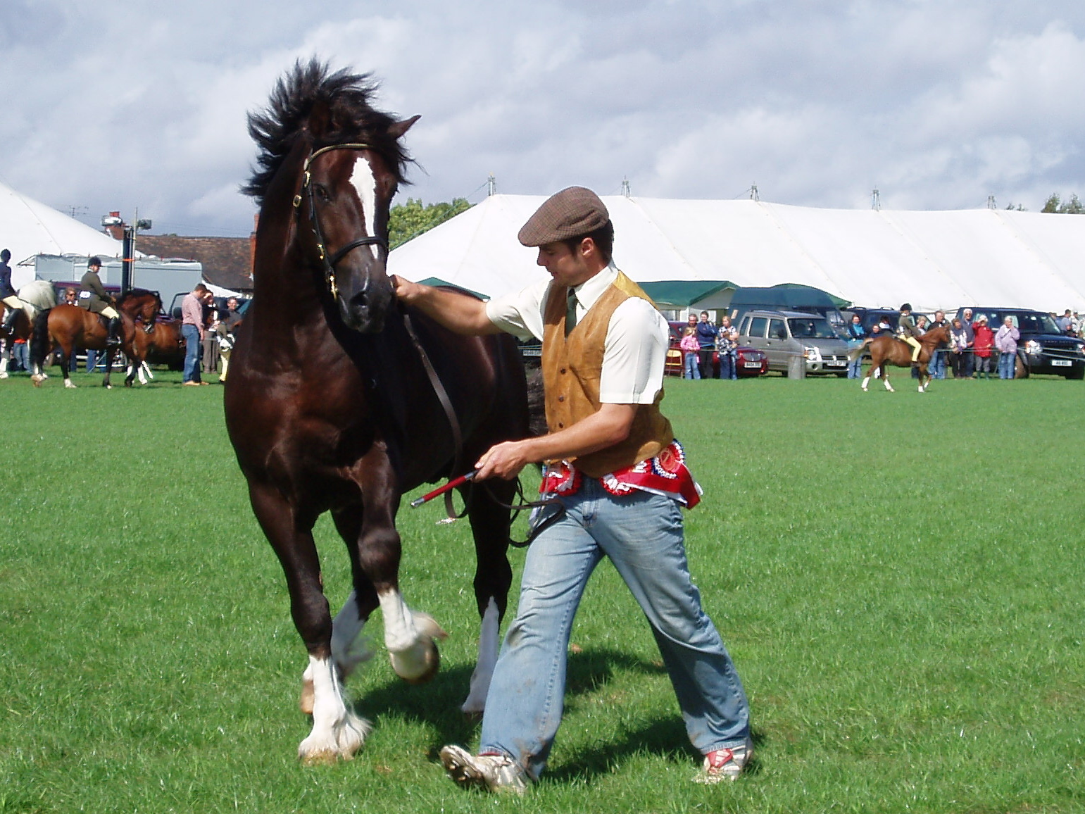 The Great British Agricultural Show. Fillongley 2008